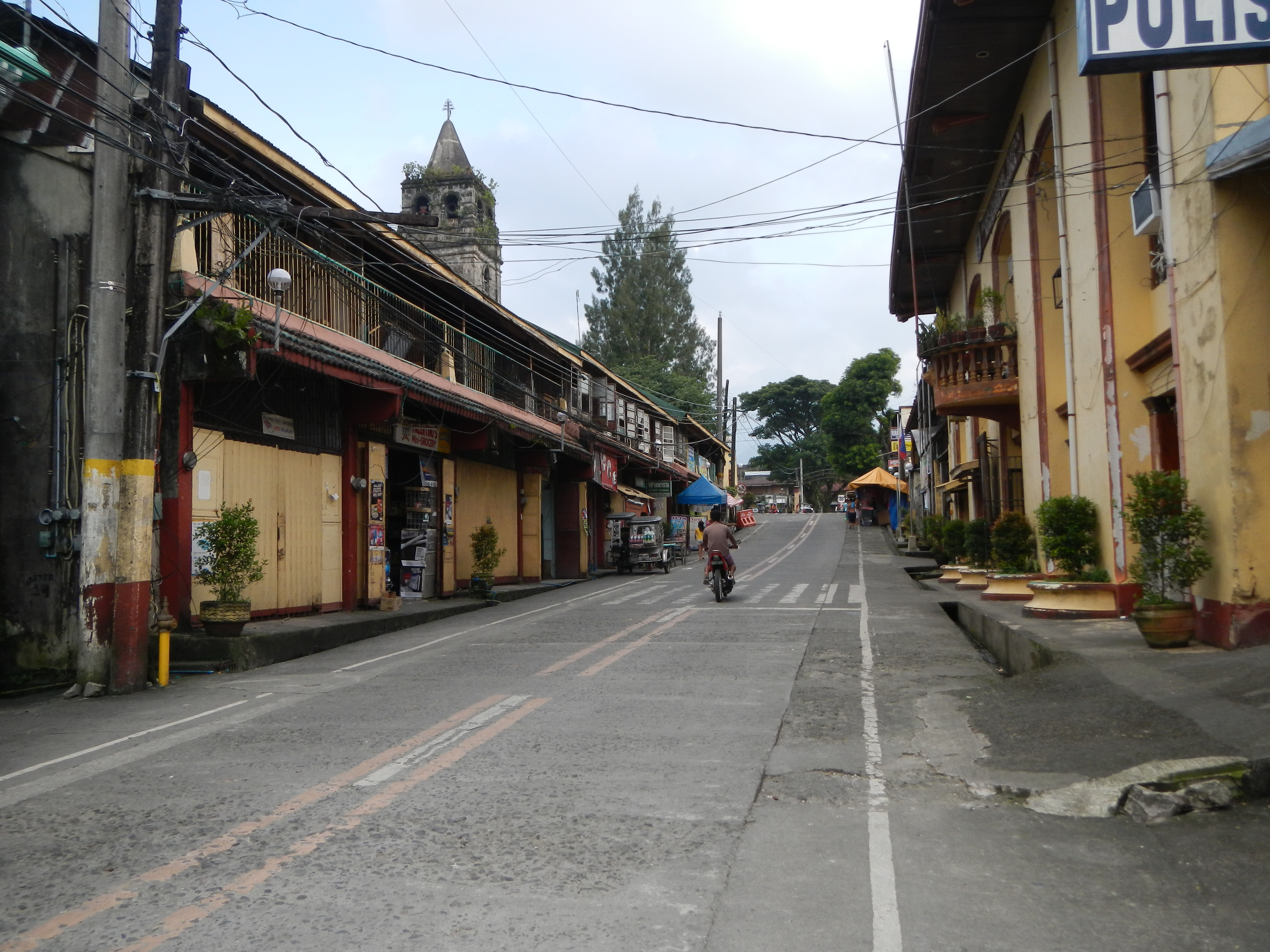 Upload Wizard photos of -- Town Proper, Centro, downtown, Public market, Gatyanto Memorial Court, Majayjay Municipal Hall, [1] Coordinates: 14°6'14"N 121°30'46"E F. Blumentritt St, Majayjay, Laguna, Calabarzon[2] - Majayjay, Laguna [3] (a fourth class municipality in the province of Laguna, Philippines, located at the foot of Mount Banahaw,[4] stands 1,000 feet above sea level; latest census, it has a population of 24,791 politically subdivided into 40 barangays) beside the [5] 1573 Saint Gregory the Great Parish Church of Majayjay.